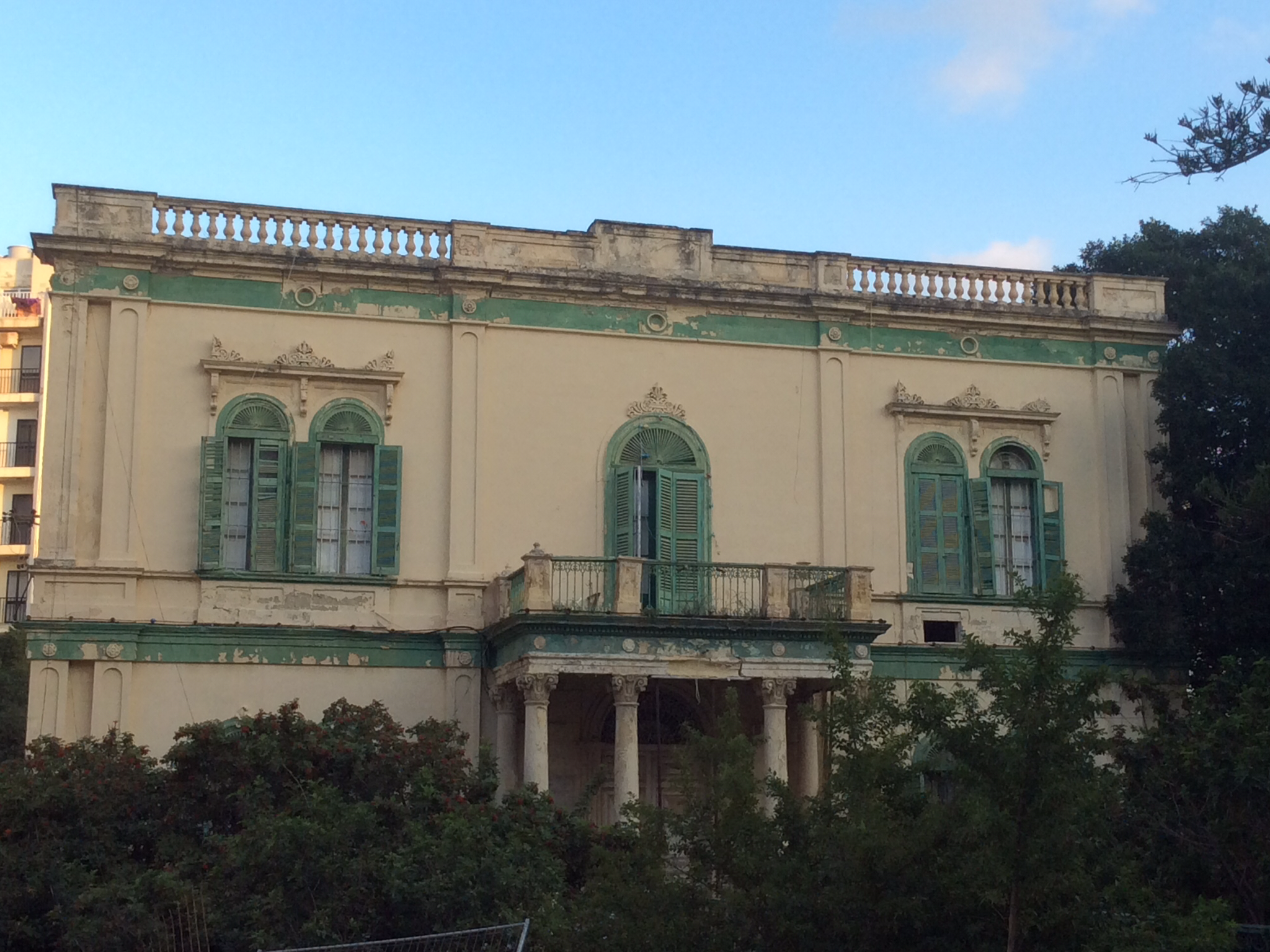 Villa Drago, in early 2016 This media is about Maltese cultural property with inventory number 01234.